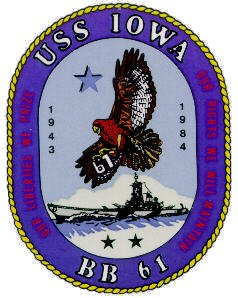 Insignia of the U.S. Navy battleship USS Iowa (BB-61), in 1982.